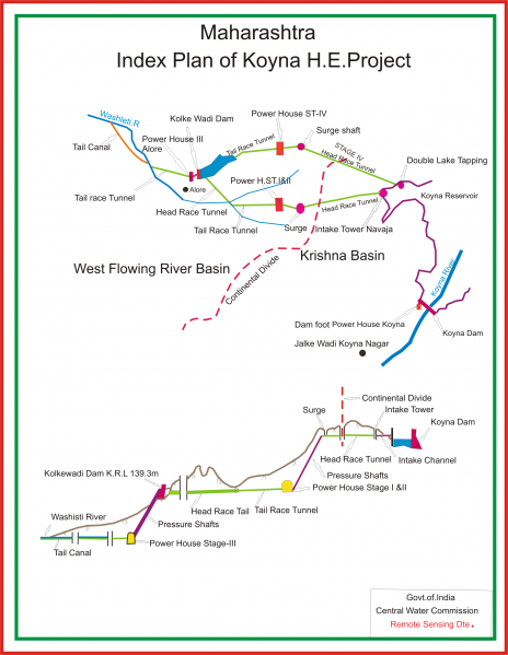 hsdgdgfjkjv